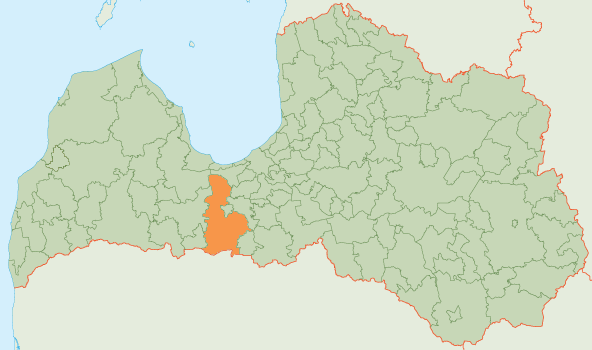 Map of Jelgava municipality, Latvia